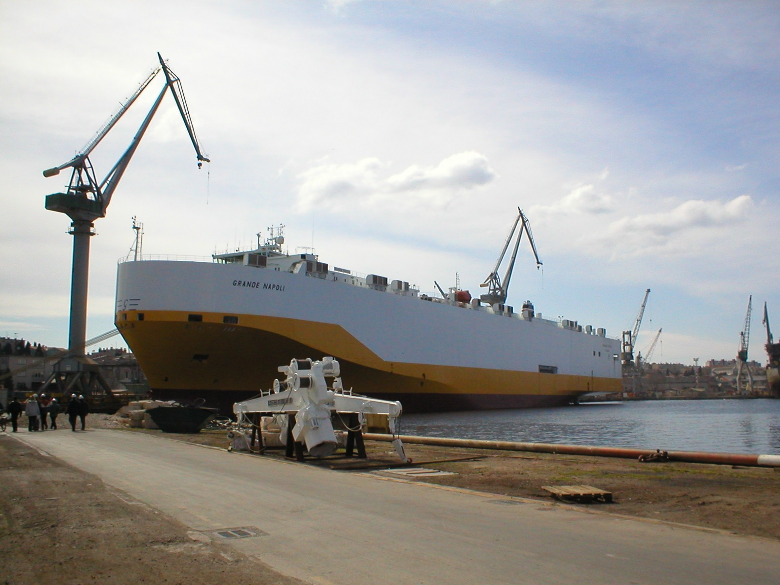 Grande Napoli. Uljanik shipyard in Pula, Croatia